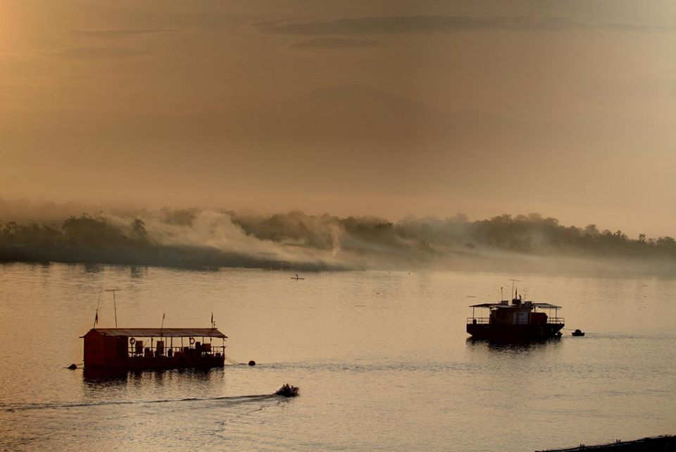 Niebla